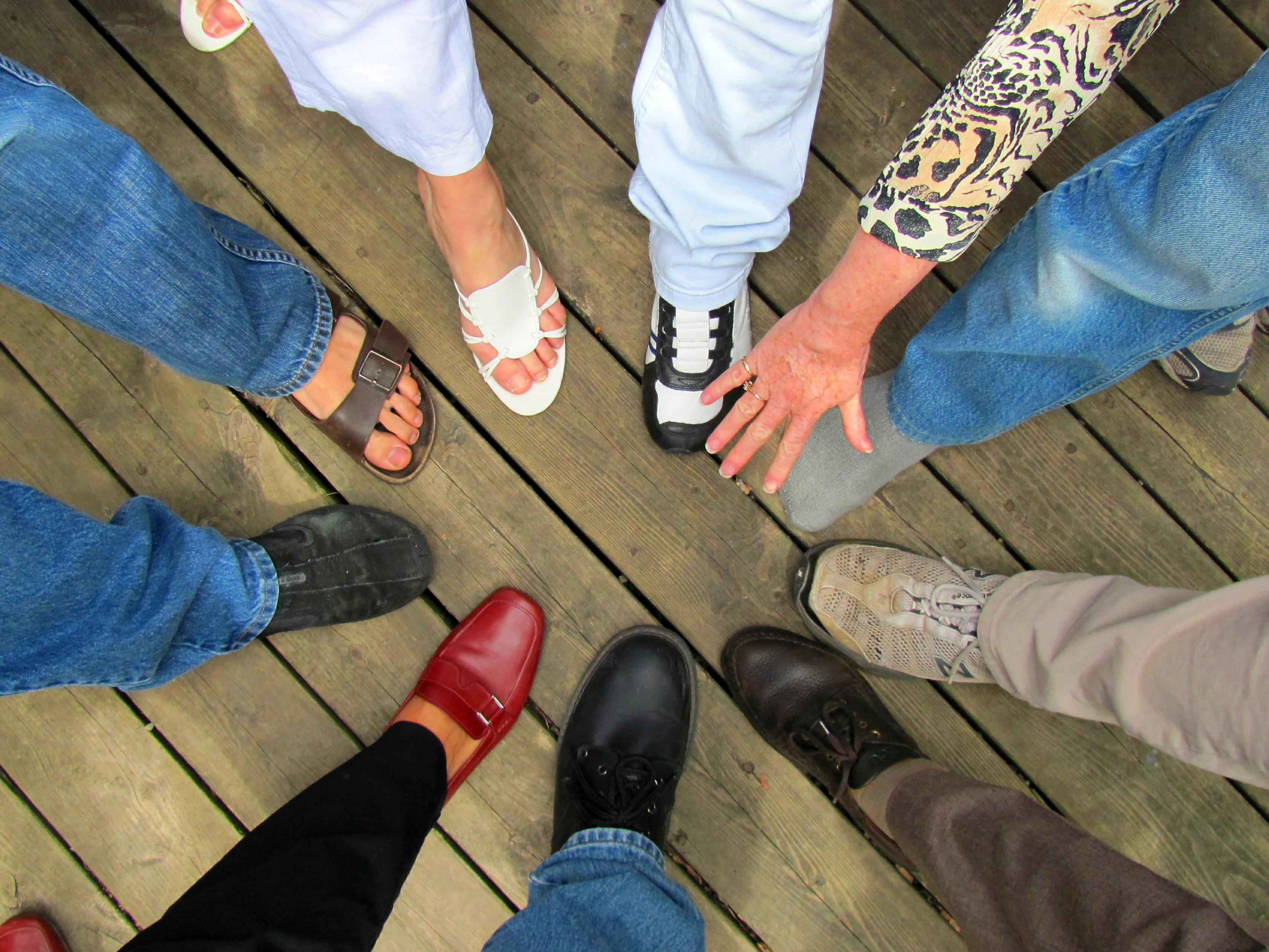 Took 3rd prize in the diversity photo contest at work. "Diversity means we can all put our best foot forward." Kind of ironic as I could not attend the award ceremony as I broke my ankle and my foot is in a cast.